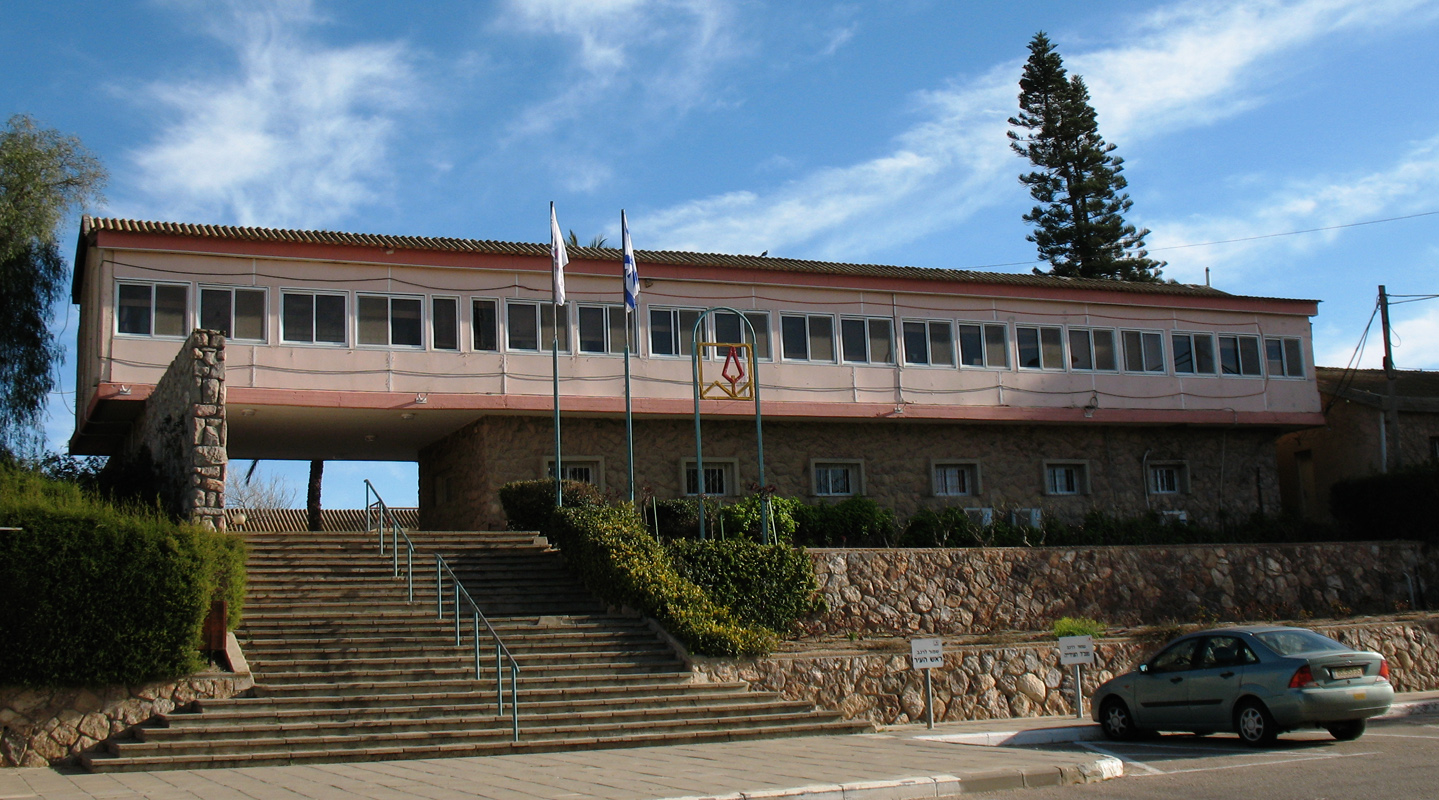 Main municipal building of Arad, Israel